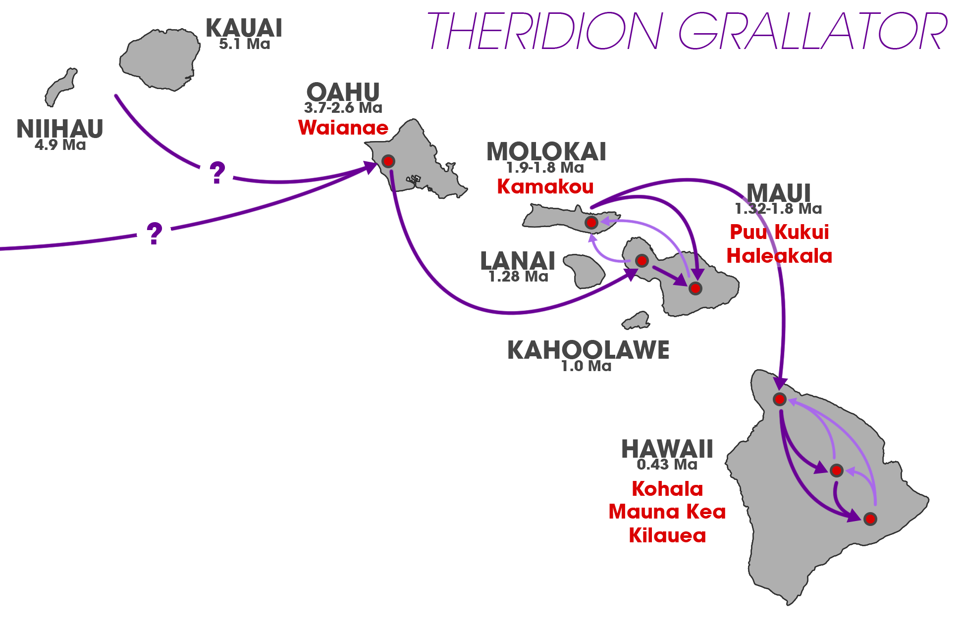 Map of the Hawaiian archipelago showing the migration/colonization routes of Theridion grallator over time. Samples were taken from seven volcano regions (in red). T. grallator is not present on Kauai or Niihau so colonization may have occurred from there, or the nearest continent. Purple lines indicate colonization occurring in conjunction with island age. Light purple indicates backwards colonization. Based on allozyme and mtDNA data. Adapted from Croucher et al. (2012).[1]